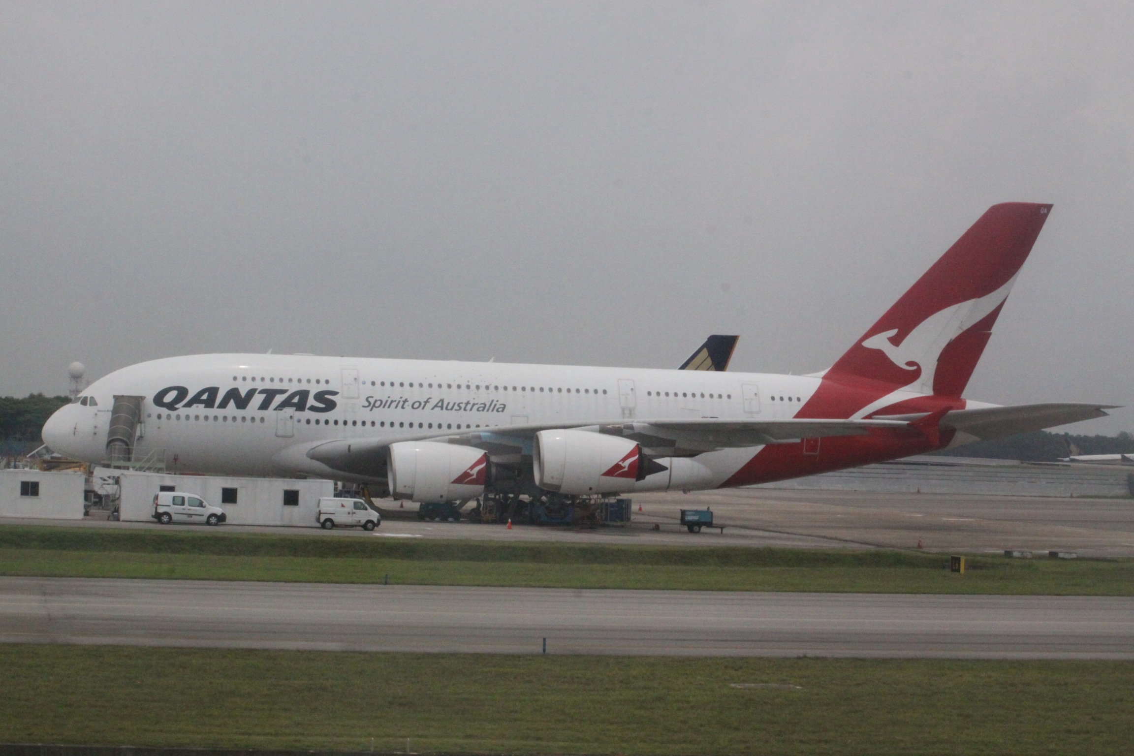 At Singapore Changi